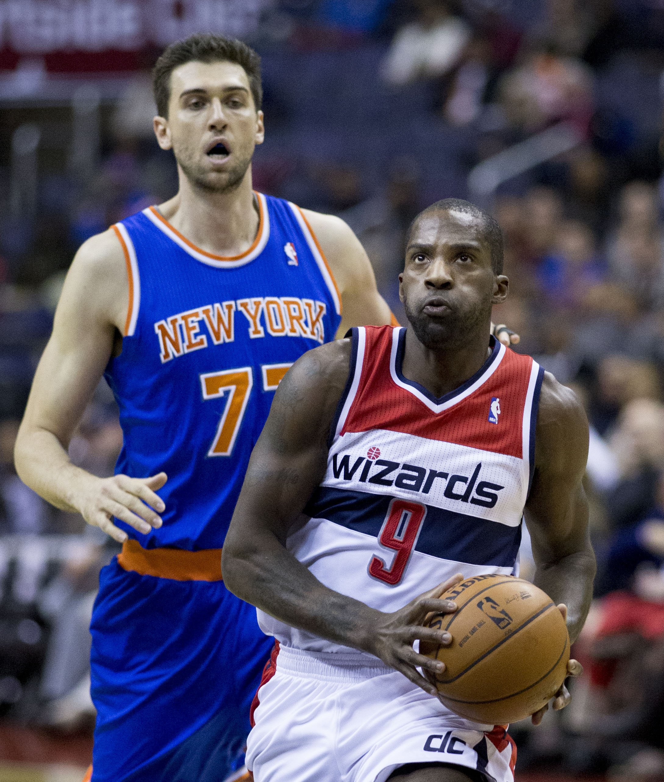 Knicks at Wizards 11/23/13